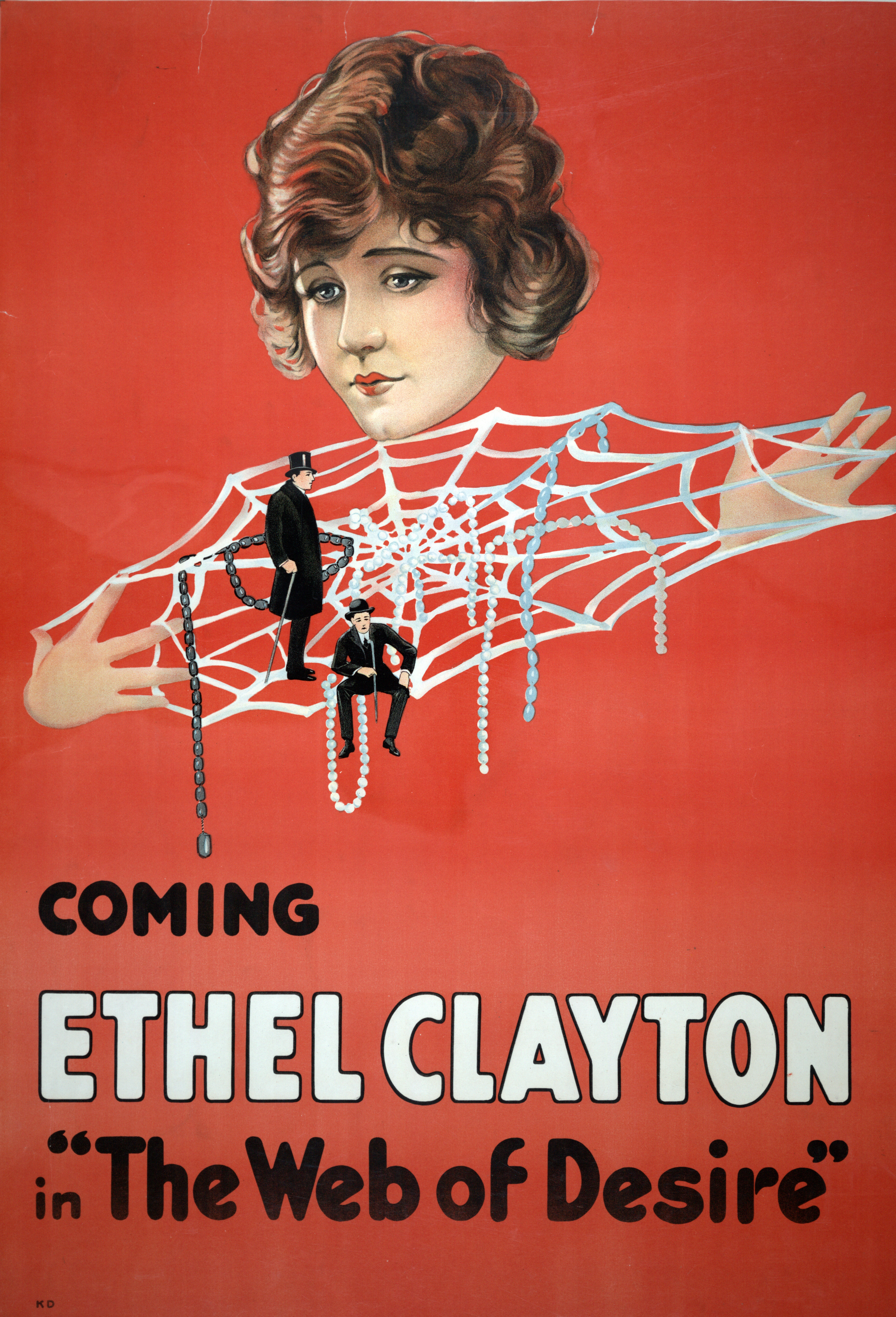 Poster for the 1917 American film The Web of Desire with Ethel Clayton.